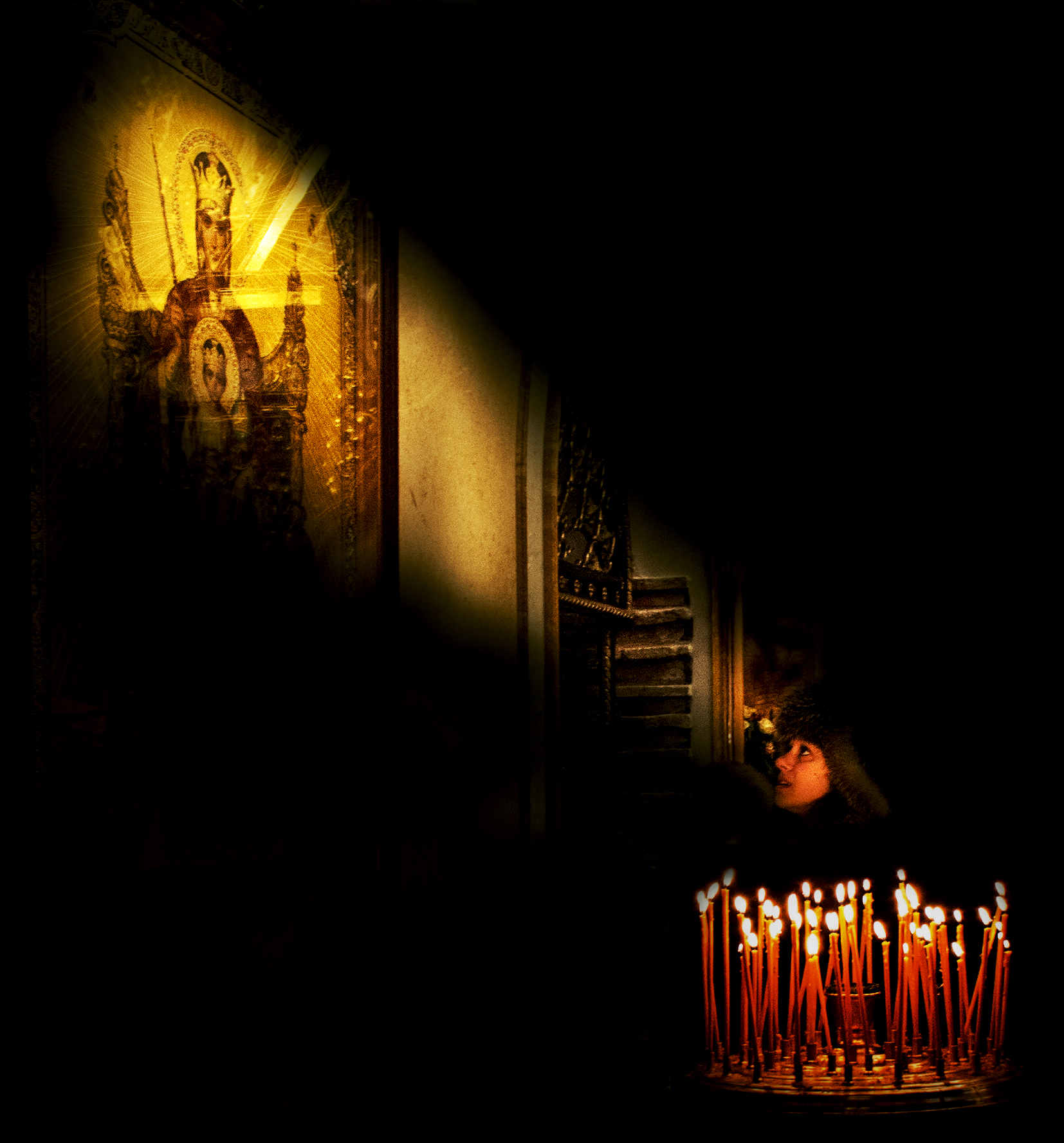 Orthodox pilgrim praying in front of icon of Saint Mary in Kiev Pechersk Lavra, Ukraine.Српски (ћирилица): Православна верница моли испред иконе Богородице у Кијевско-Печерској Лаври, Кијев, Украјина. Божић 2013.